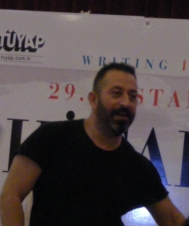 Turkish comedian, actor, cartoonist, screenwriter and director Cem Yılmaz